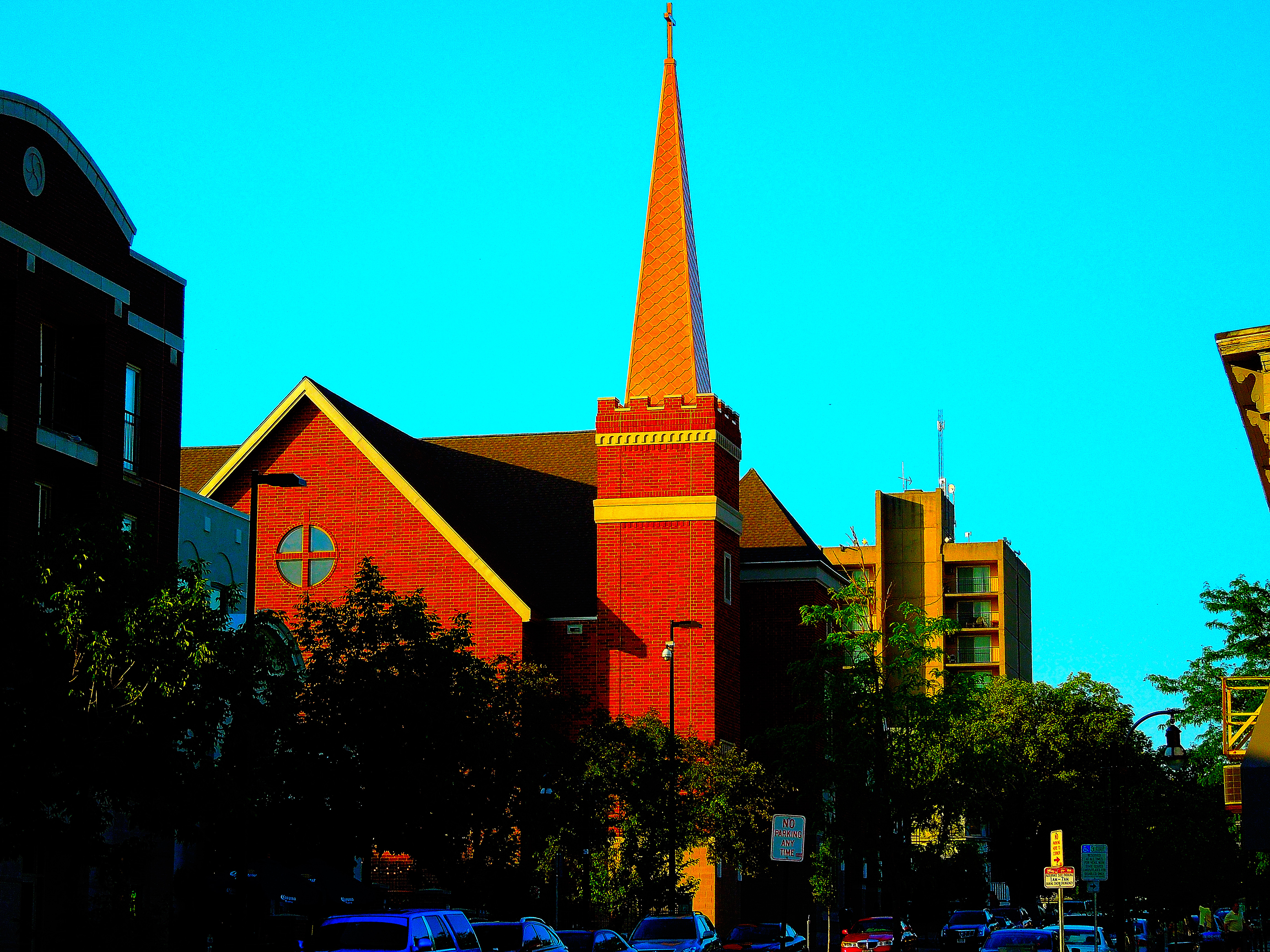 Wisconsin Lutheran Chapel and Student Center